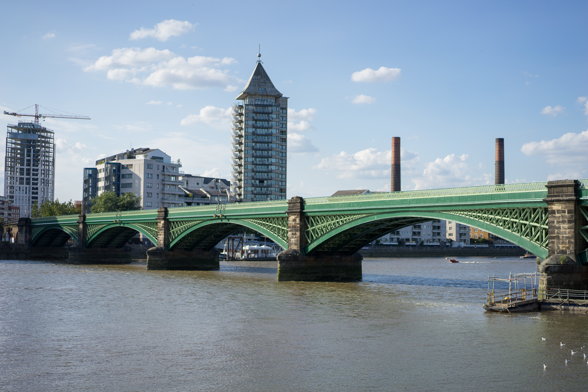 Battersea Railway Bridge